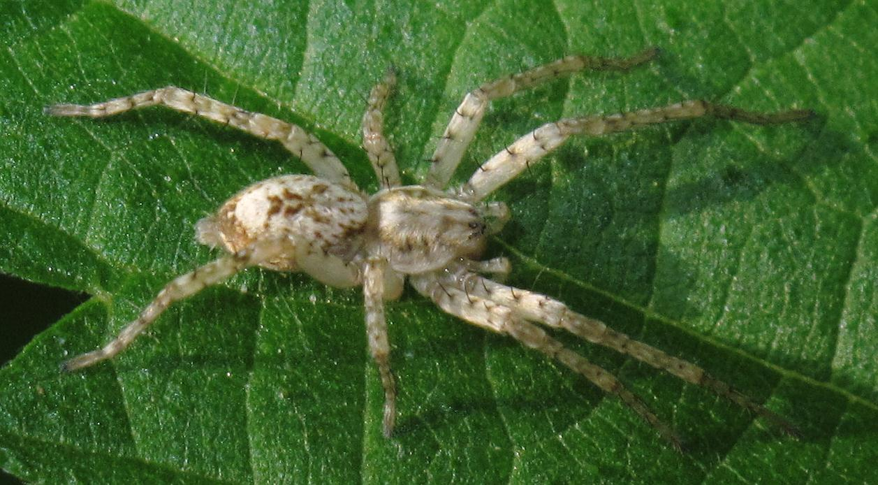 Anyphaena accentuata on Urtica dioica at a forest road between Dreieich-Goetzenhain and Langen (Germany)